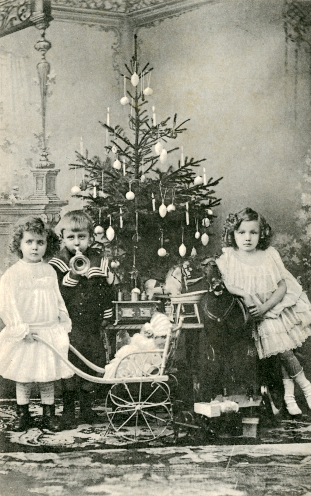 Image from National Archives of Norway's Flickr-Album [ "Riksarkivets julekalender 2011/National Archives advent calendar 2011 " ] (all images marked with "No known copyright restrictions")